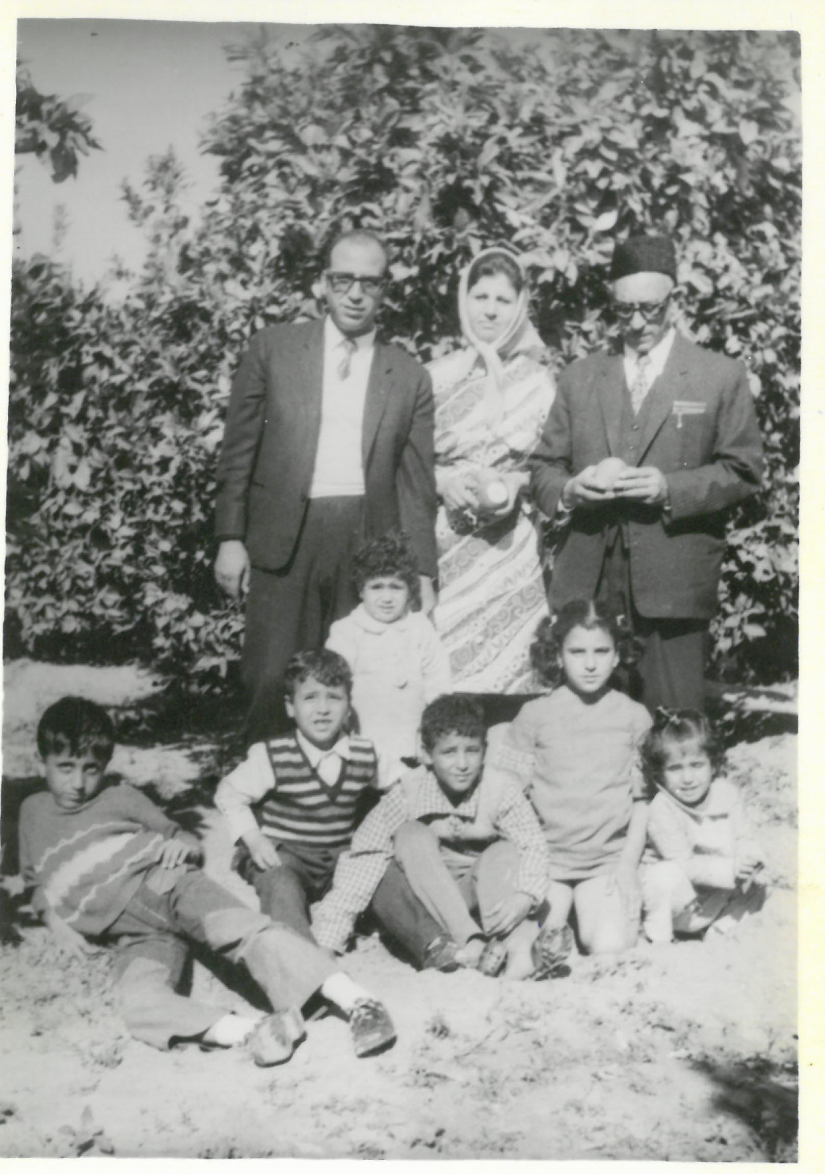 مزرعة جرش1972